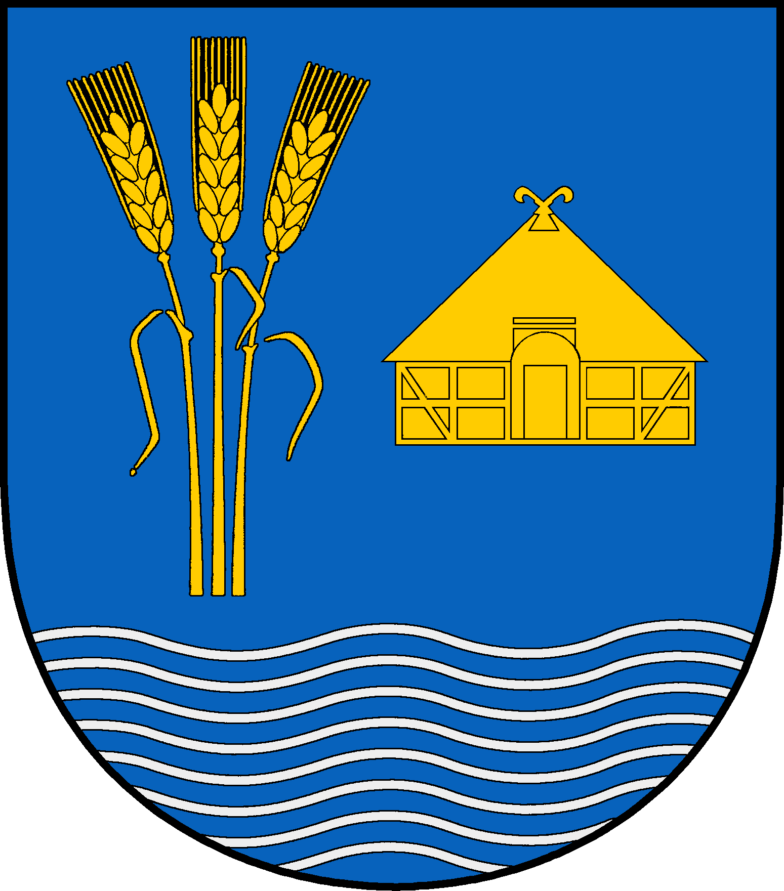 Coat of arms of the municipality Warwerort in Schleswig-Holstein, Germany.